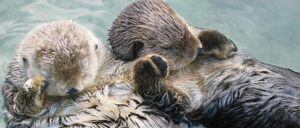 Sleeping sea otters (Enhydra lutris) holding hands, photographed at the Vancouver Aquarium, Vancouver, British Columbia, Canada.